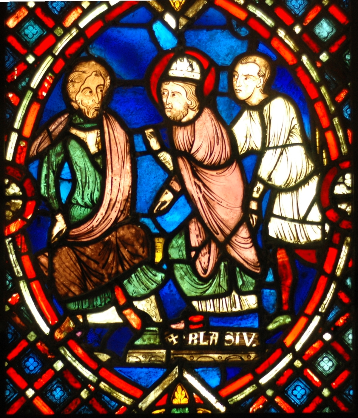 St. Blaise confronting the Roman governor: Scene from the life of St. Blaise, bishop of Sebaste (Armenia), martyr under the Roman emperor Licinius (4th century). Stained glass window from the area of Soissons (Picardy, France), early 13th century.